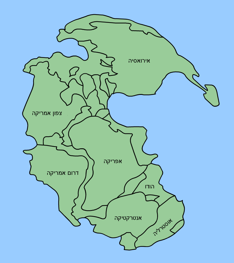 Hebrew version of Image:Pangaea continents.png.